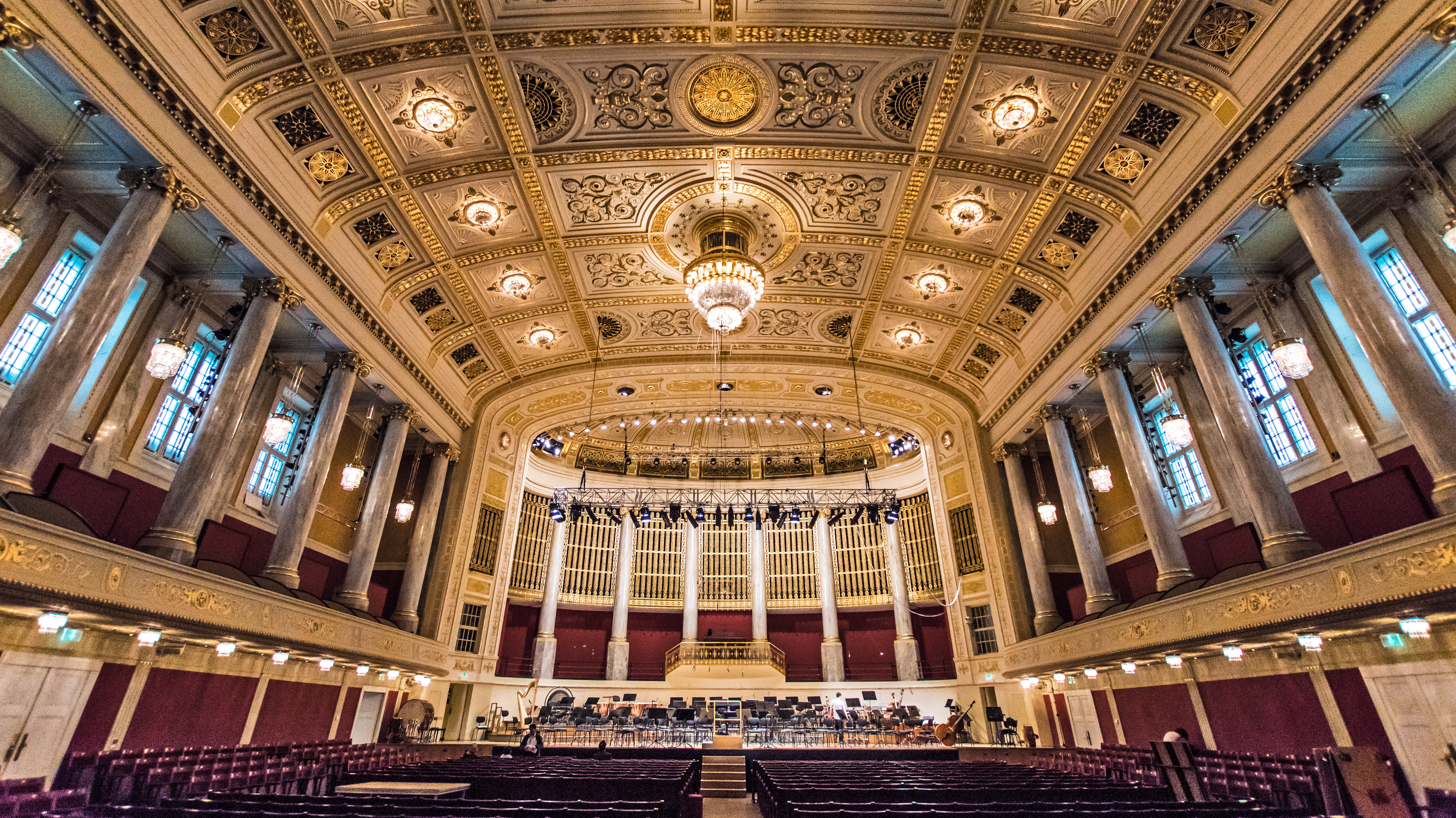 Big hall of the Konzerthaus Vienna